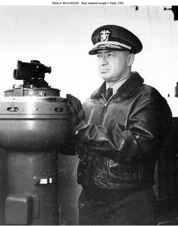 Admiral Joseph "Jocko" Clark on the bridge of the USS Philippine Sea.